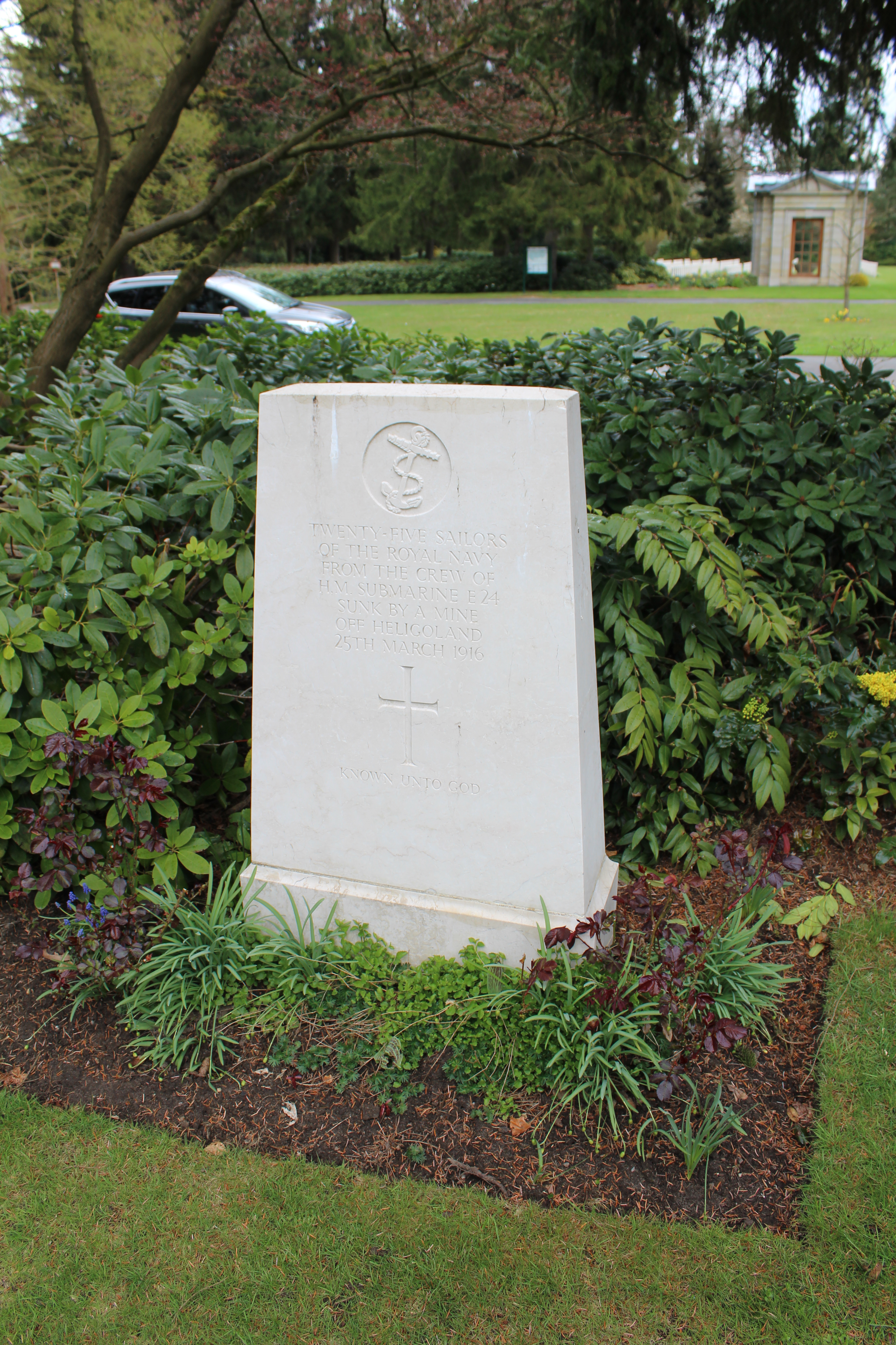 Monument to the crew of HMS E24 at Hamburg Commonwealth War Graves Commission Cemetery.